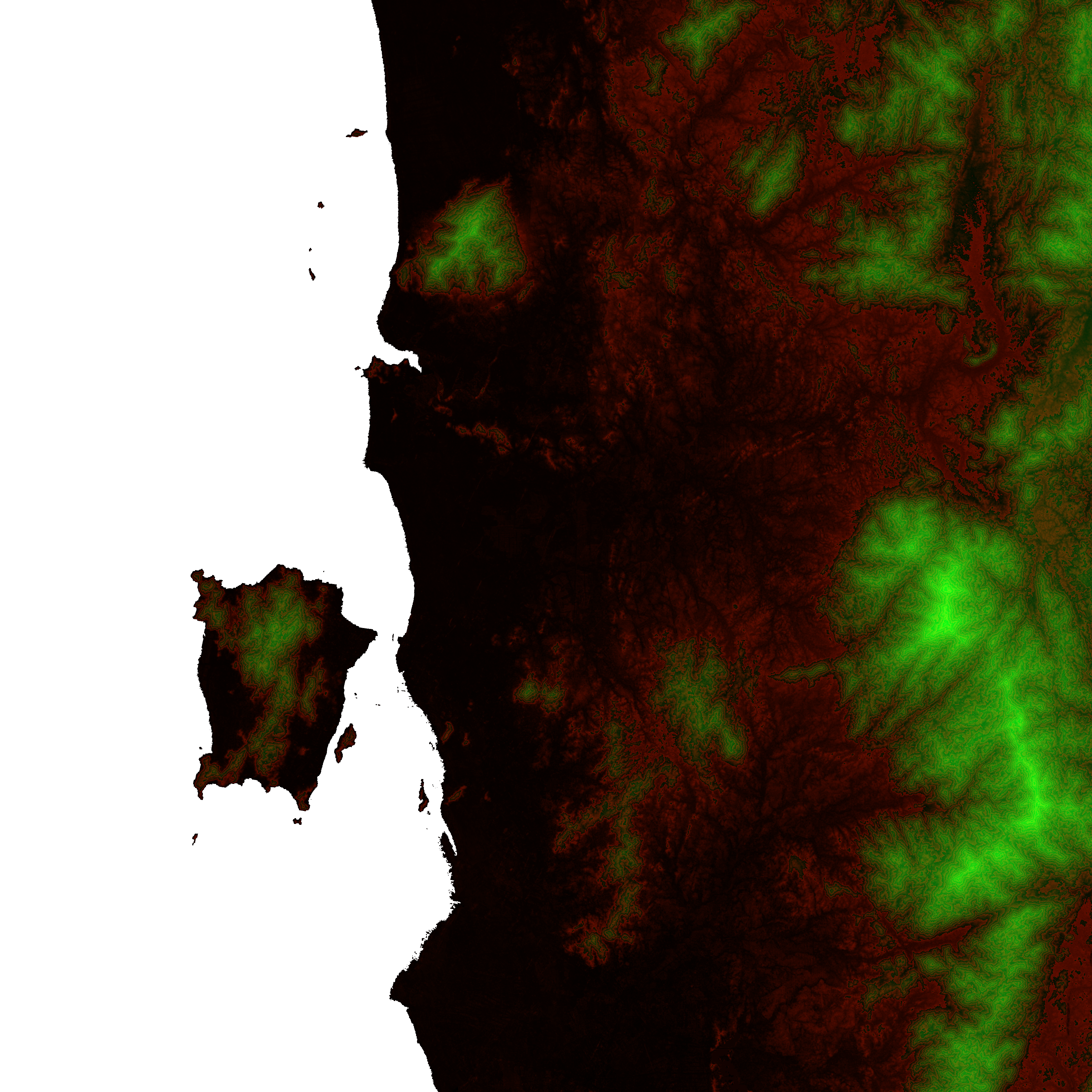 A heightmap of Penang state and the southern part of Kedah with contour discontinuities every 100 m, plotted from ASTER Global Digital Elevation Model data at and coloured as follows: Alpha channel: Height of 0 m (sea level) adjacent to the sea is fully transparent, otherwise fully opaque Green channel: Height normalised from 0 m (value 0) to 1856 m (value 255) Red channel: Height in metres modulo 100 Blue channel: Height in metres divided by 100, then floored Hence, each point's blue value * 100 + red value gives its height in metres.